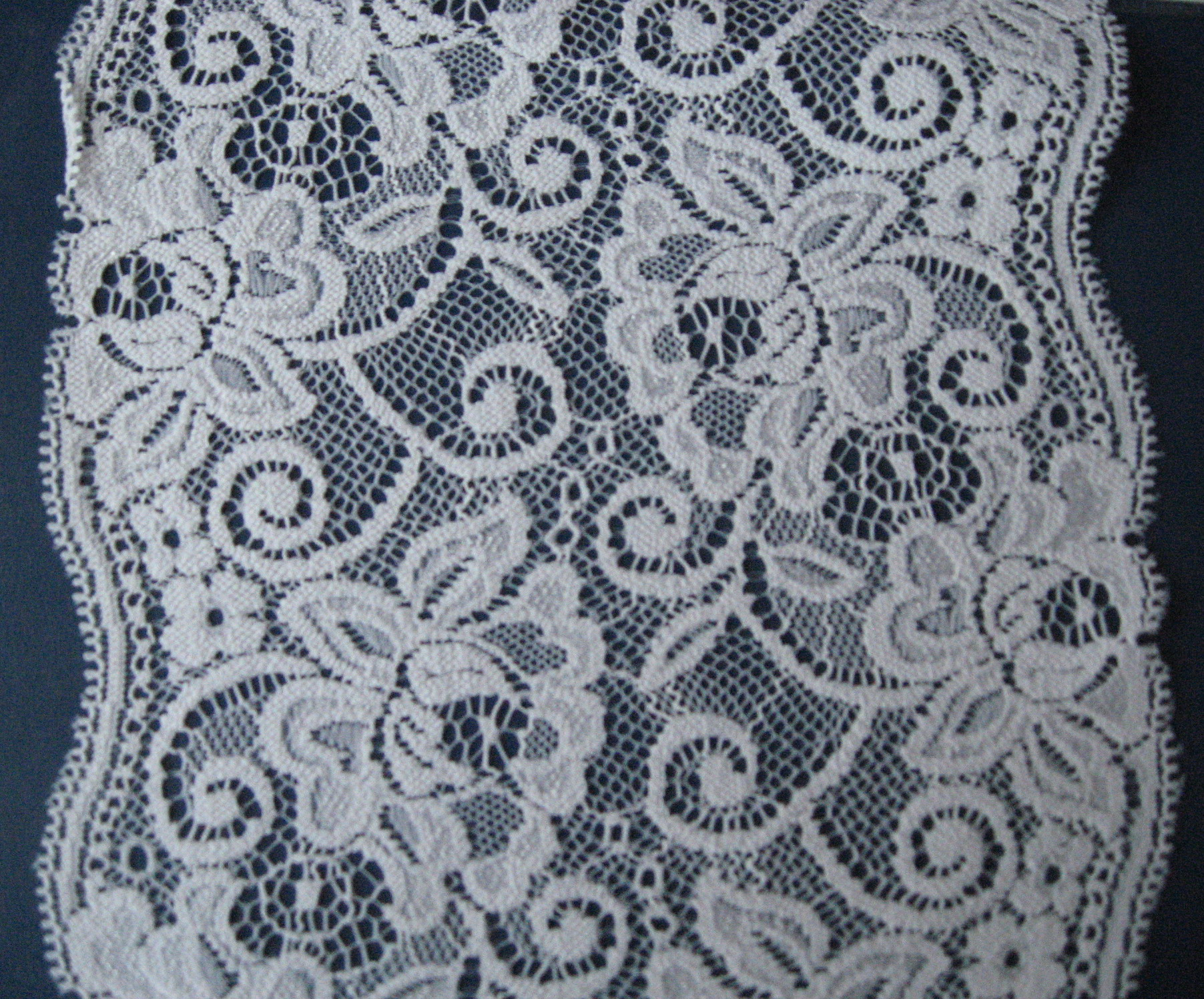 Part of a lace ribbon made on Raschel machine